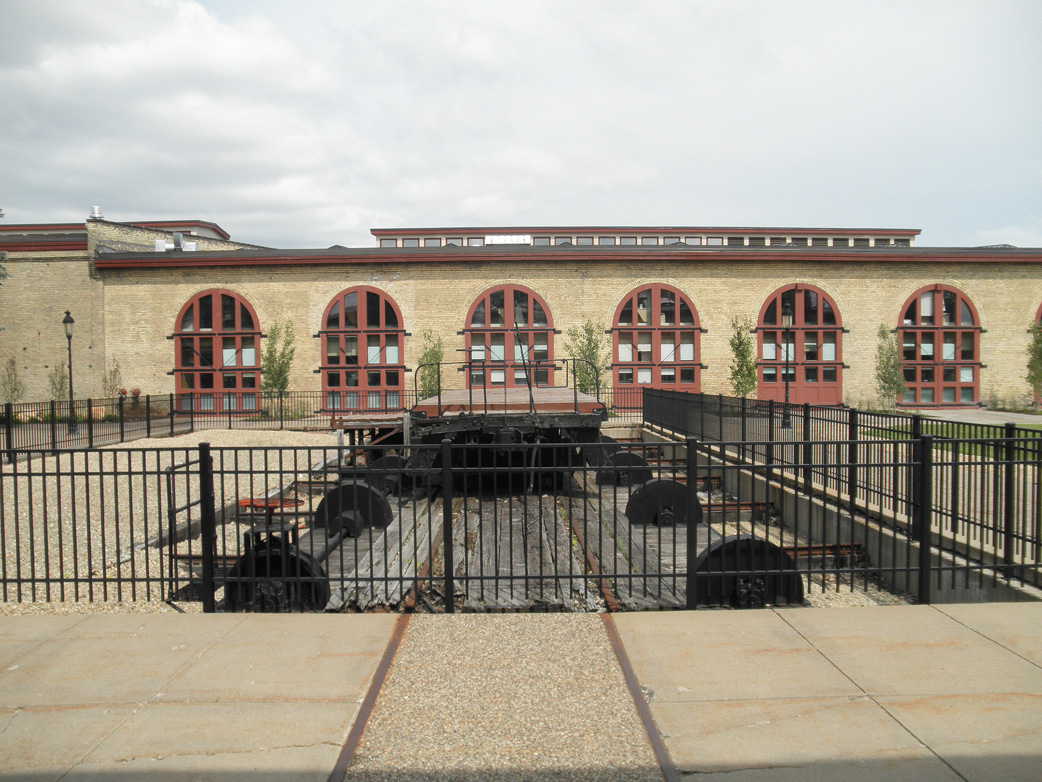 Bandana Square's old transfer table, which once had a wooden caboose displayed that later was turned into a stage for outdoor concerts that, alas, never came to Bandana.